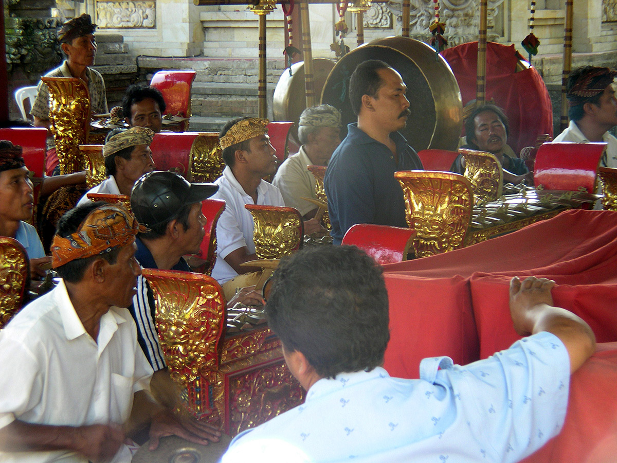 Gamelan musicians in a street temple concert, Ubud, Bali, Indonesia